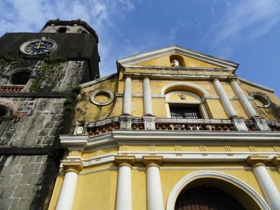 Pasig Cathedral, formally known as the Immaculate Conception Cathedral